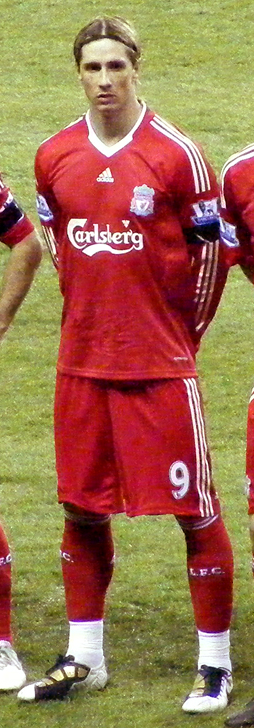 Fernando Torres. Image cropped from original at flickr.